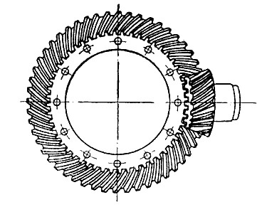 Bevel gear